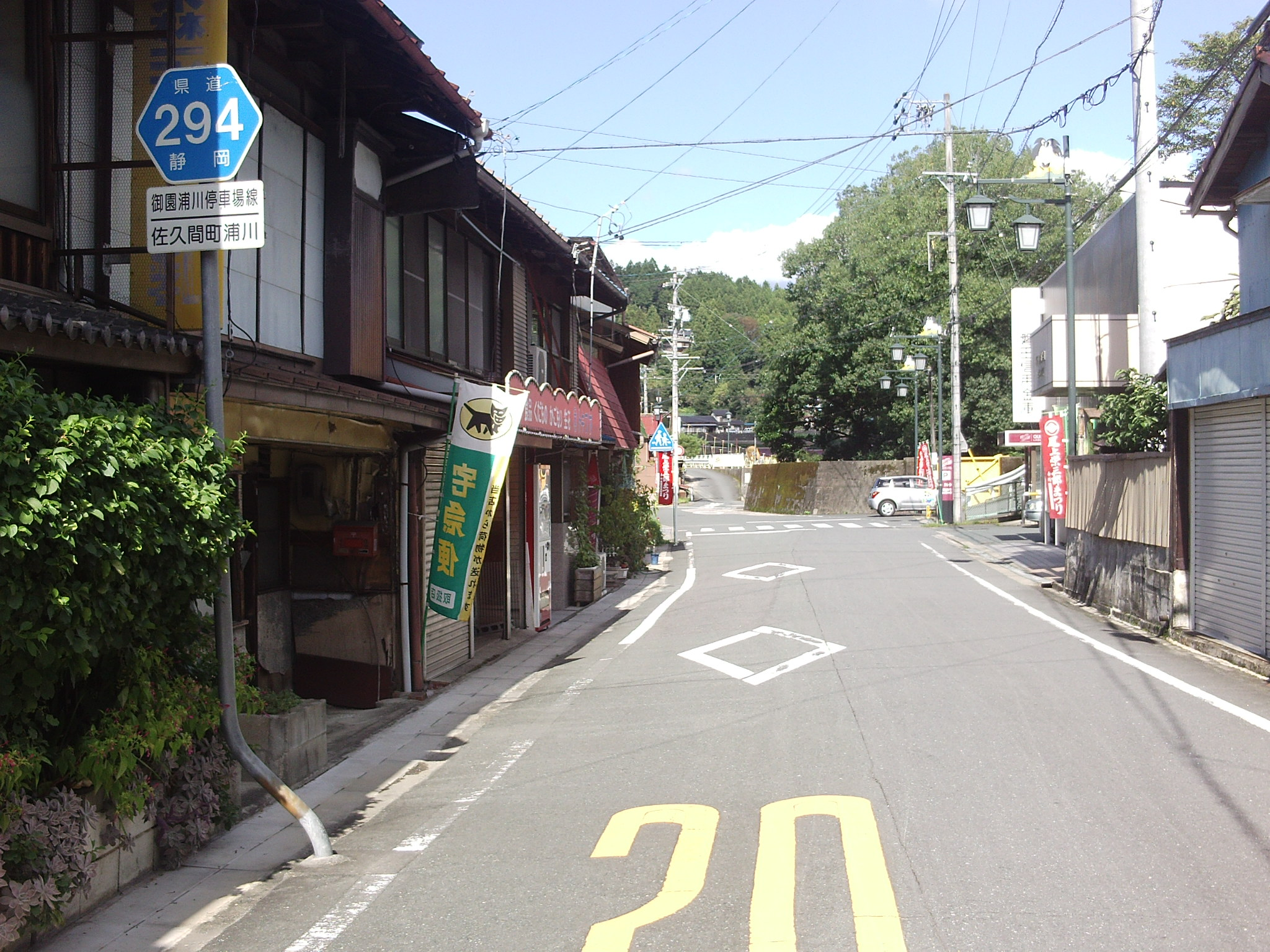 Shizuoka prefectural road No.294 in Sakumacho Urakawa, Tenryu-ku, Hamamatsu, Shizuoka.